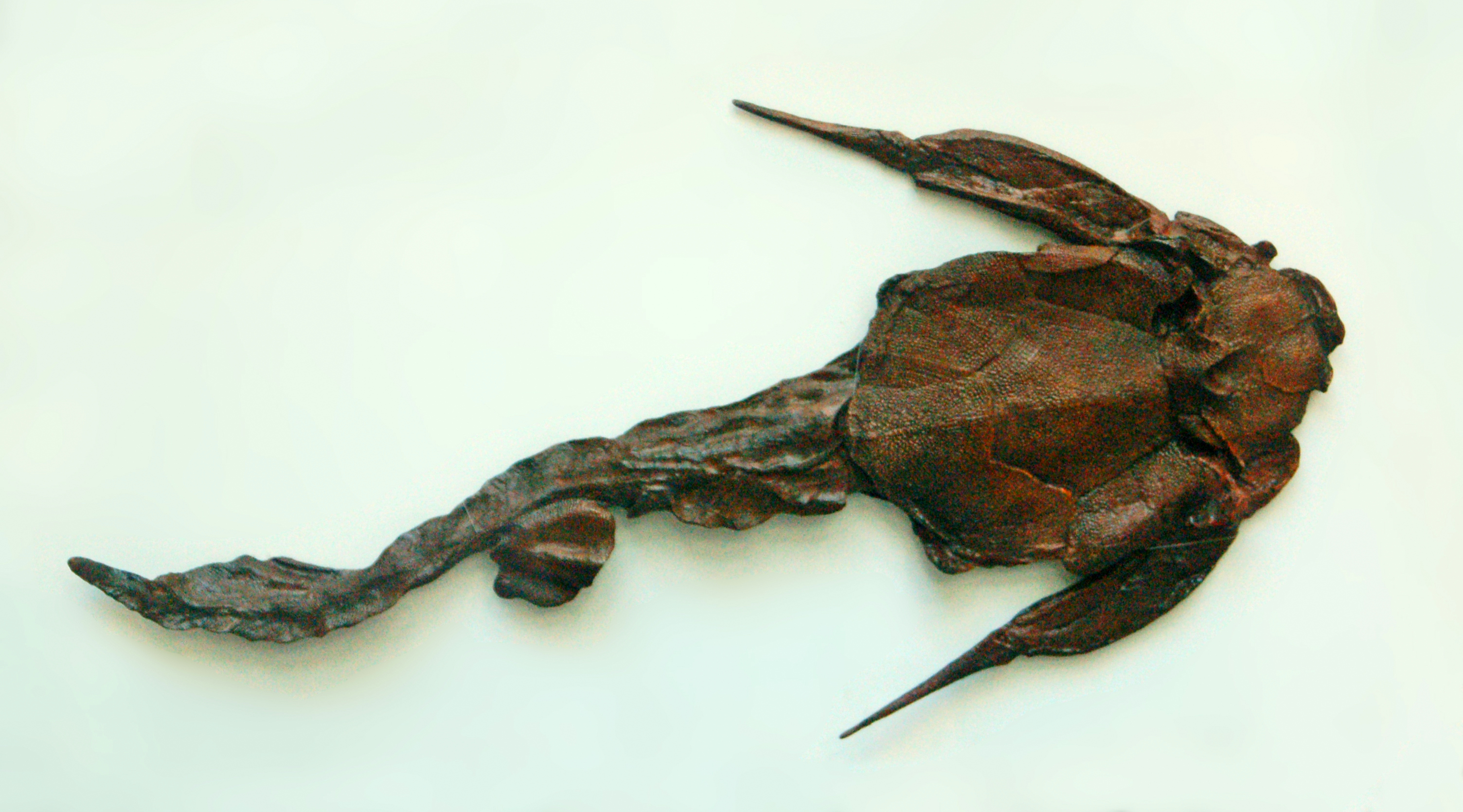 Bothriolepis canadensis - Cast